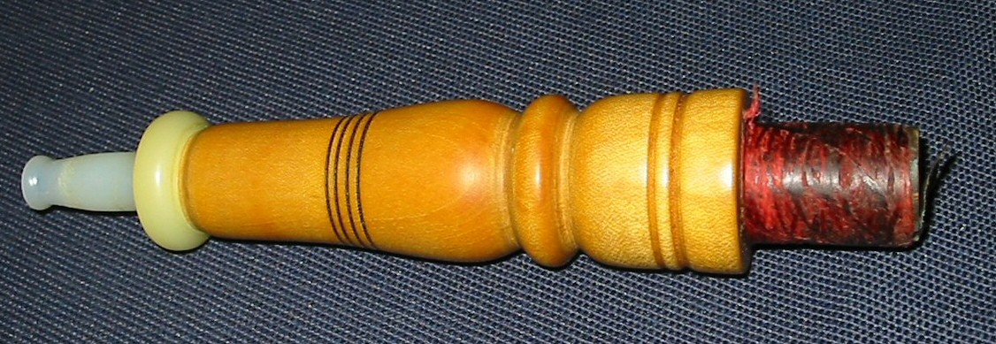 The mouthpiece of a Baghèt